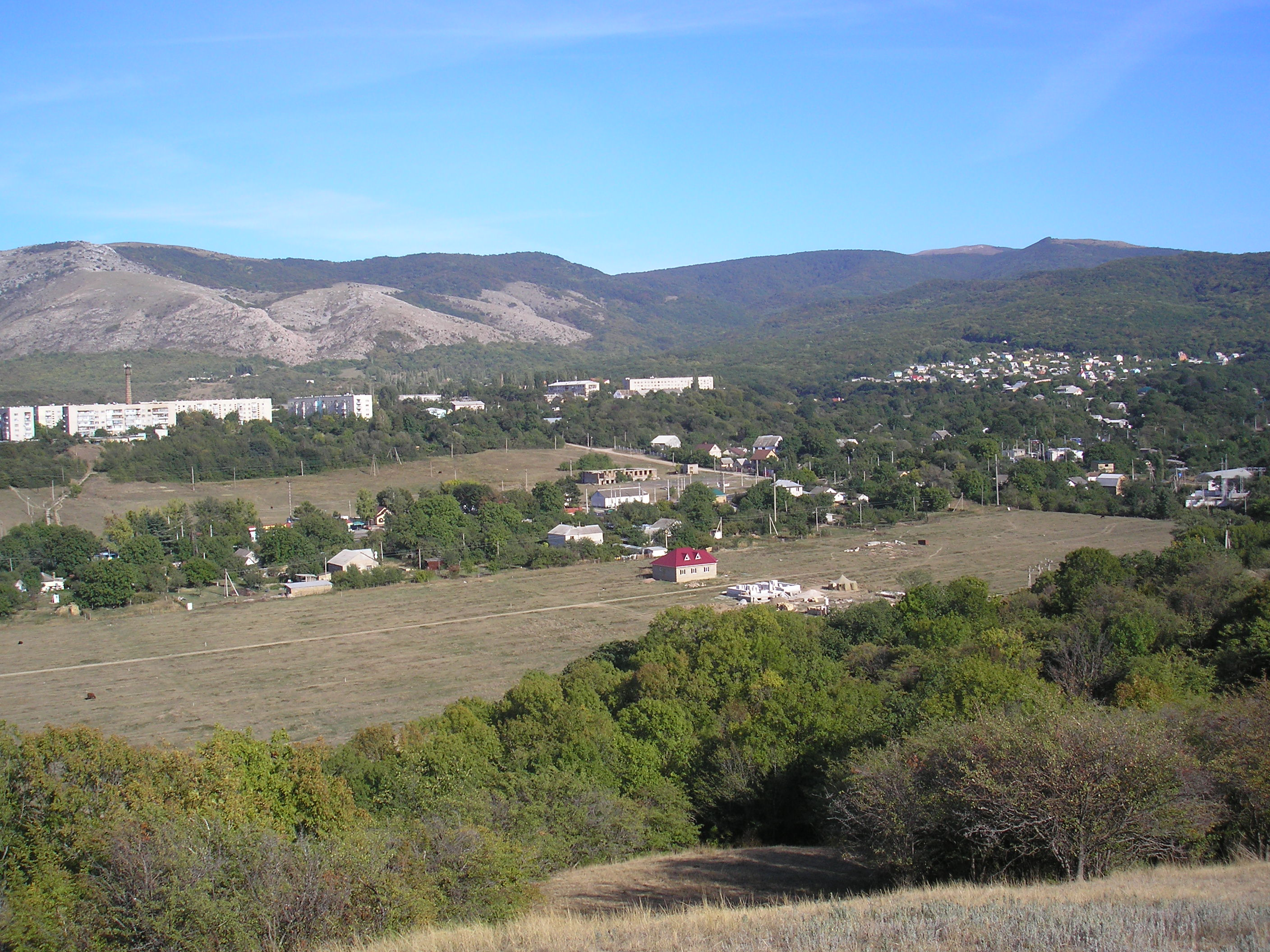 Village Perevalnoe, Simferopol district, Crimea